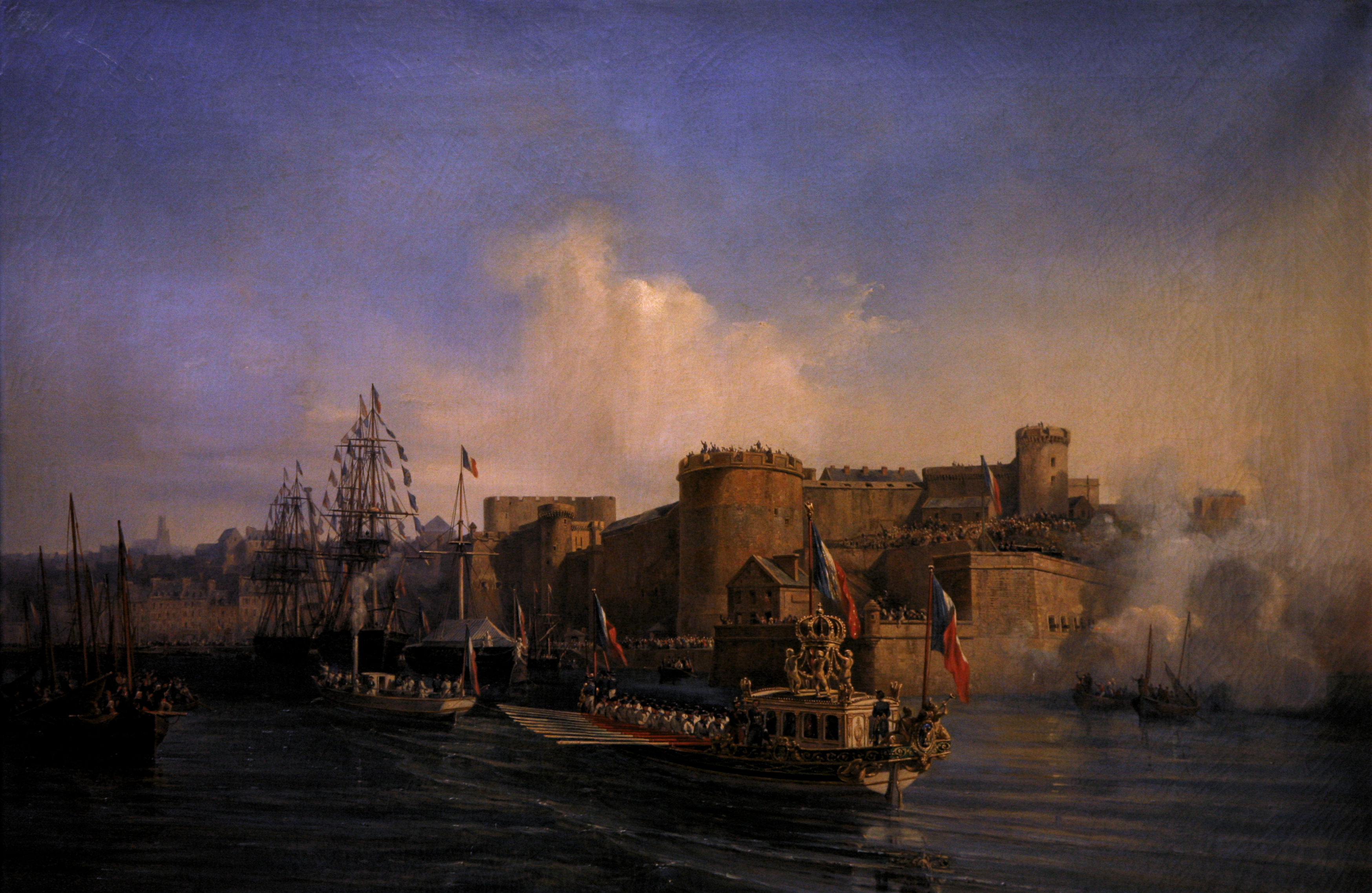 Artist Auguste Étienne François Mayer (1805–1890) Alternative names Auguste Etienne François Mayer; Auguste Etienne Mayer; Auguste Mayer; Auguste Etienne Francois MayerDescriptionFrench painter and illustratorDate of birth/death 3 July 1805 22 September 1890 Location of birth/death Brest BrestAuthority control : Q2871318 VIAF: 51960536 ISNI: 0000 0000 6662 7106 ULAN: 500030137 LCCN: nb2007002353 DBNL: maye010 WorldCat artist QS:P170,Q2871318Description Napoleon III's visit to Brest, 11 August 1858Collection Musée national de la Marine Native nameMusée national de la MarineLocationParisCoordinates48° 51′ 43″ N, 2° 17′ 15″ E Established1827Web page control : Q1286709 VIAF: 19144648200974718522 ISNI: 0000 0001 2259 2914 LCCN: n50055356 Museofile: M5026 WorldCat institution QS:P195,Q1286709Accession number 9 OA 14Source/Photographer Med Napoleon III's visit to Brest, 11 August 1858